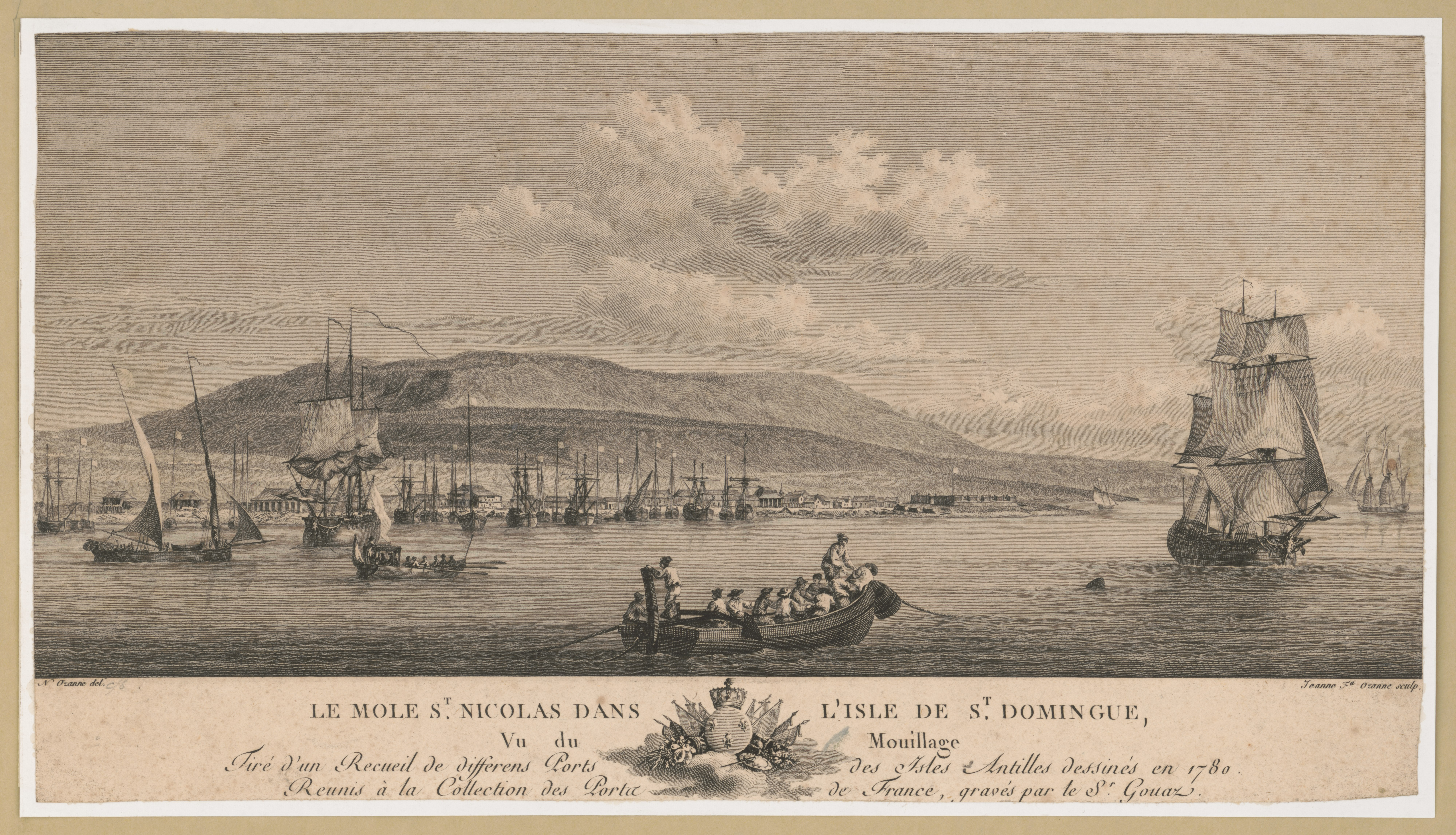 Title: Le mole St. Nicolas dans l'isle de St. Domingue, vu du mouillage / N. Ozanne del. ; Jeanne Fa. Ozanne sculp. Abstract/medium: 1 print : engraving.